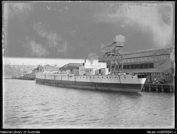 HMAS Sydney being broken up at Cockatoo Island, Sydney Harbour.